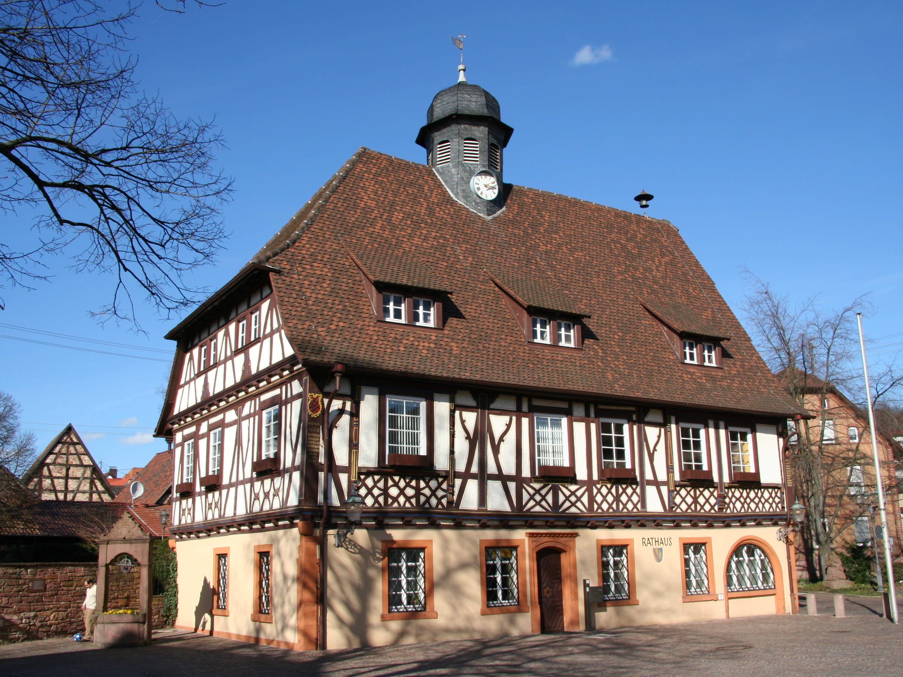 Ancient town hall of Karlsruhe-Grötzingen, Germany.